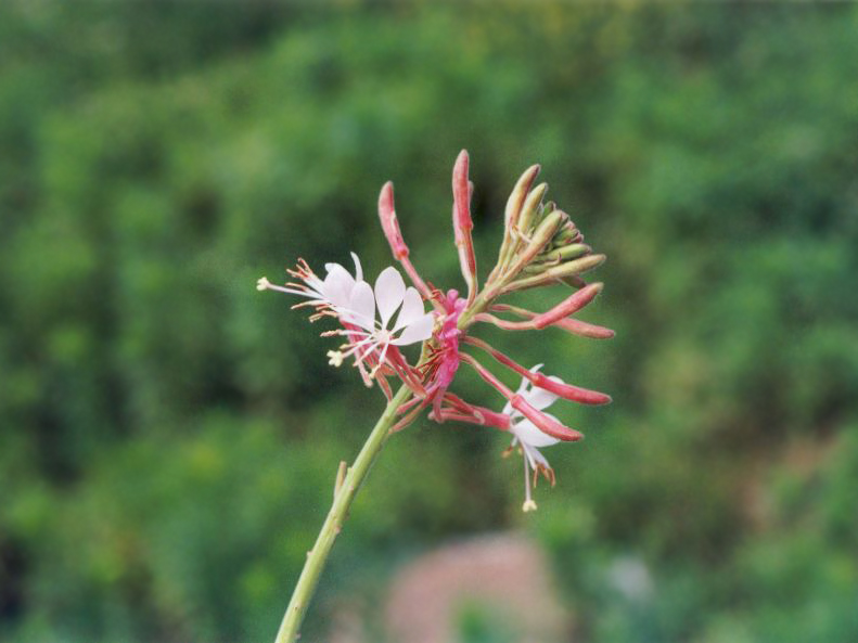 Oenothera gaura W. L. Wagner & Hoch (syn. Gaura biennis L.) - biennial beeblossom - IA, Scott Co., Davenport, Nahant Marsh.